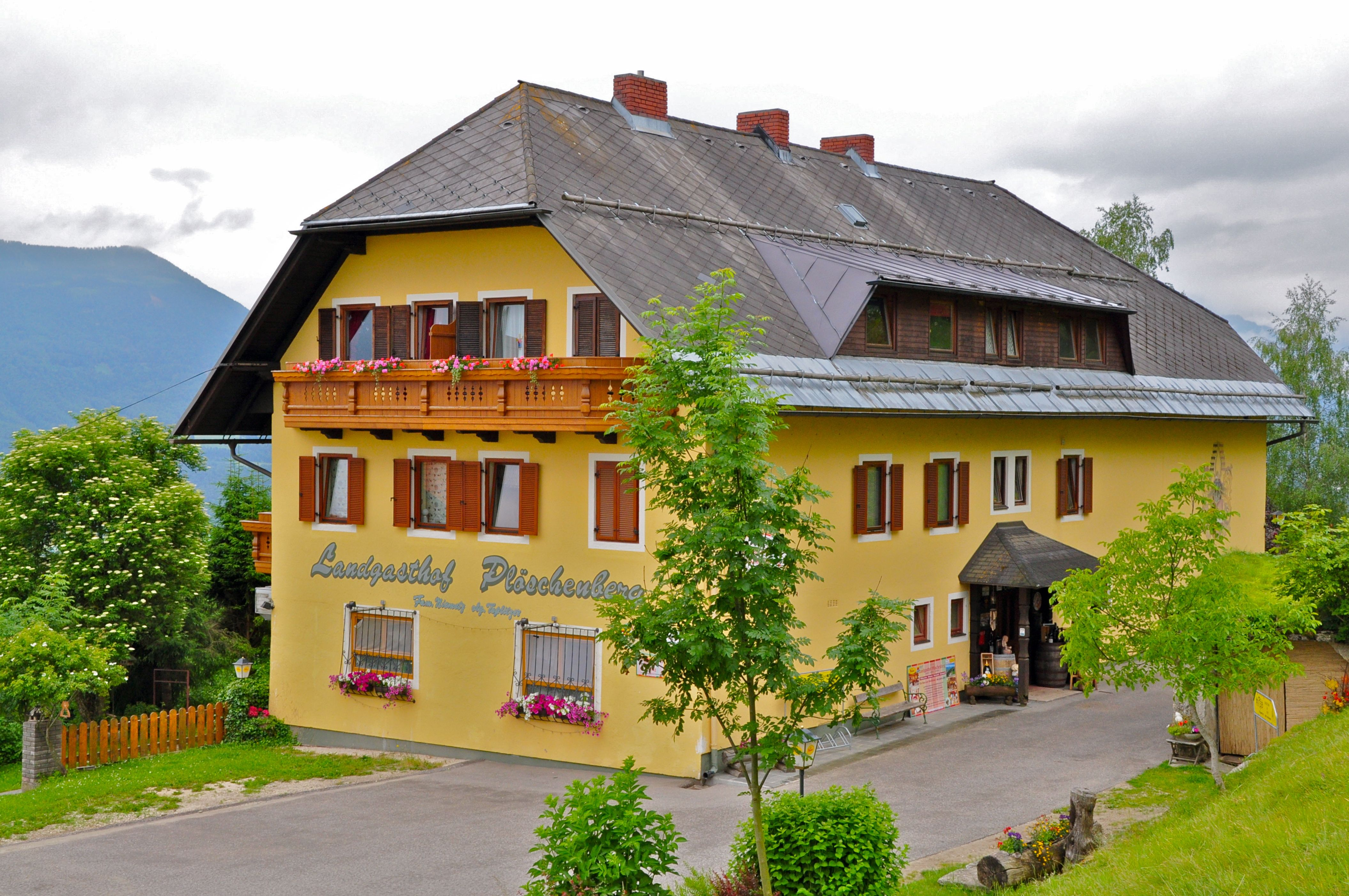 Country restaurant of the family Niemetz vulgo Toplitzer, at Ploeschenberg, municipality Koettmannsdorf, district Klagenfurt Land, Carinthia, Austria